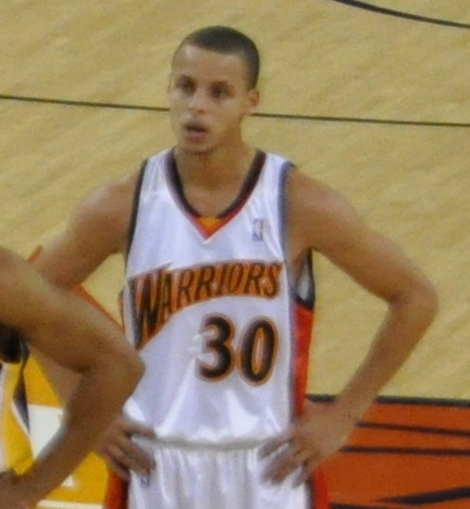 Stephen Curry of the Golden State Warriors